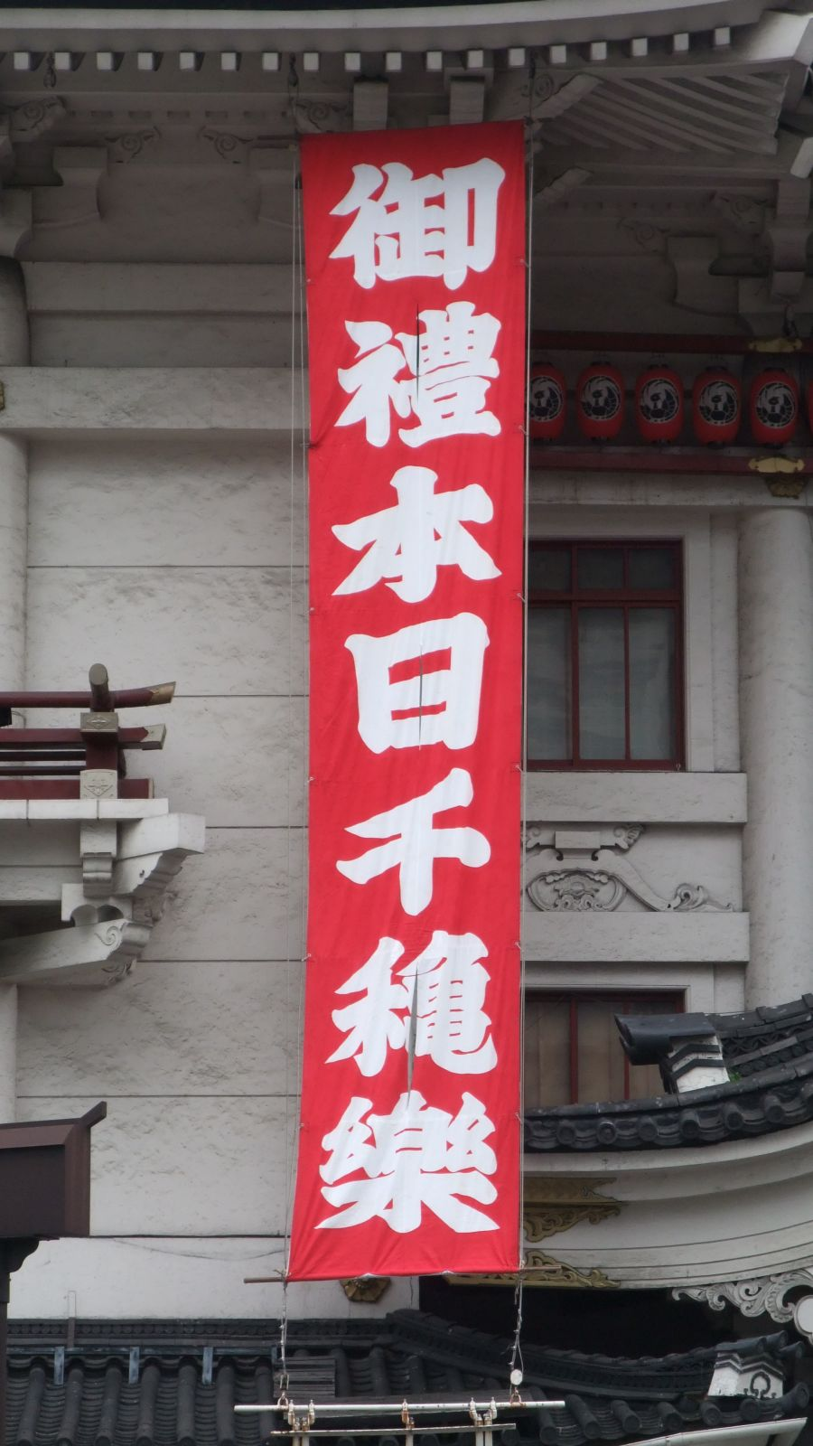 Banner on the Kabuki-za